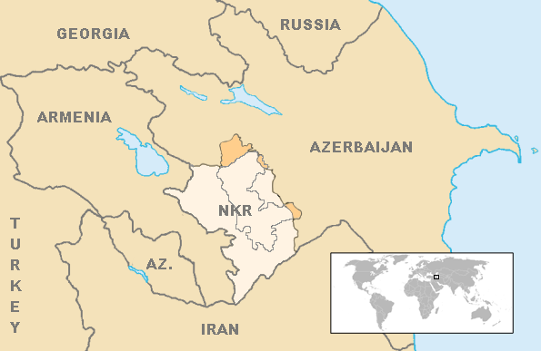 Location of Nagorno-Karabakh Republic.